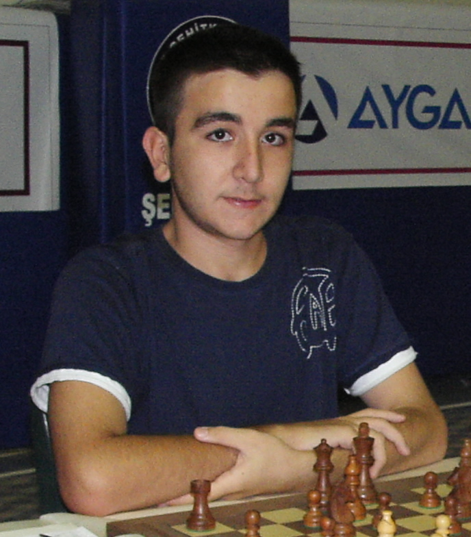 GM Eltaj Safarli of Azerbaijan, at the 2008 World Junior Chess Championship in Gaziantep, Turkey.